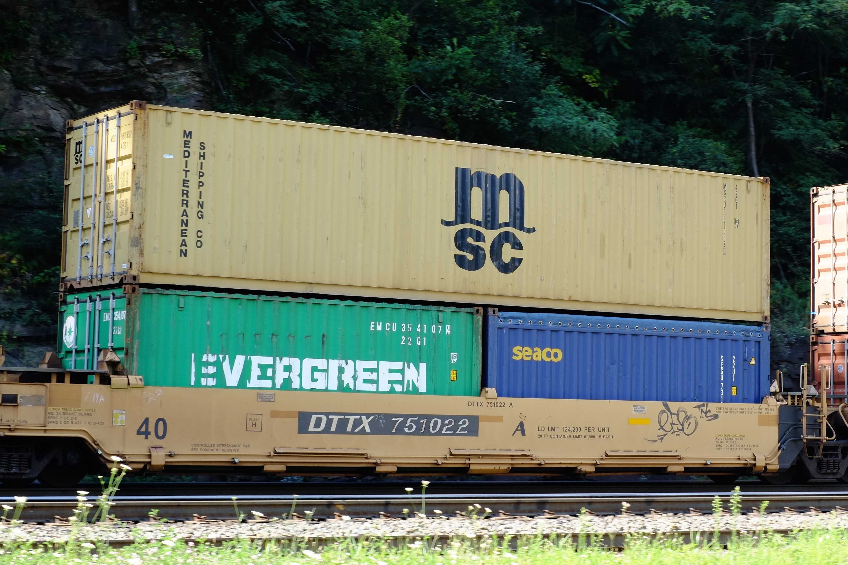 MSC container train